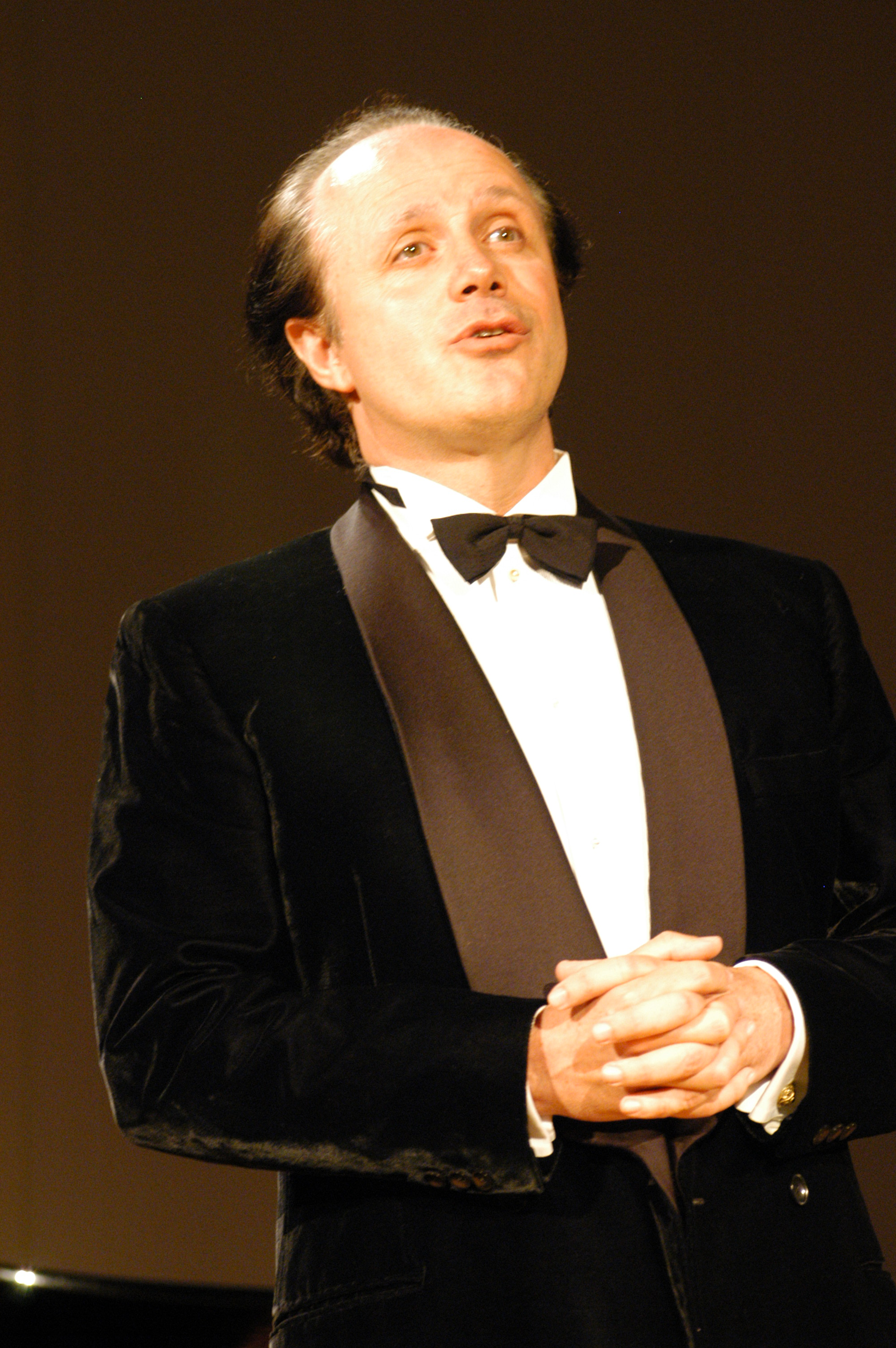 Concert for the 60th anniversary of the UNESCO Concert for Peace